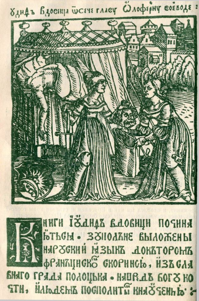 Image from "Book of Judith" of Francysk Skaryna, 9-2-1519